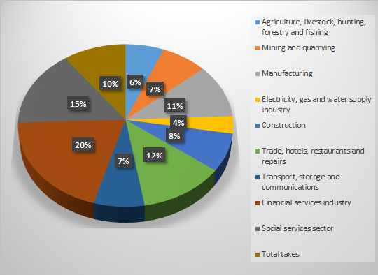 Colombia's gross domestic product by sector for the second half of the year 2015.